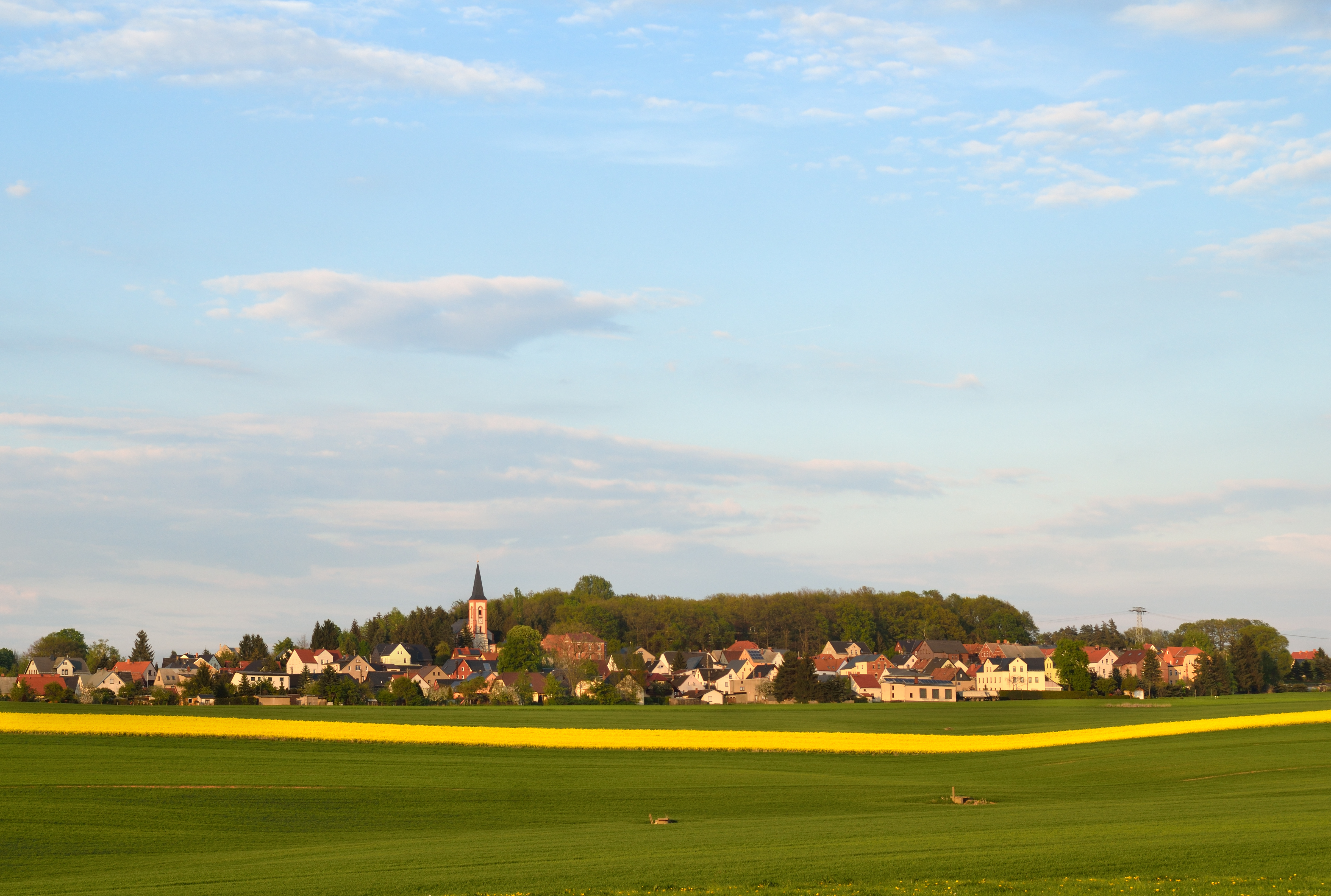 Friedrichsgrün, view from west